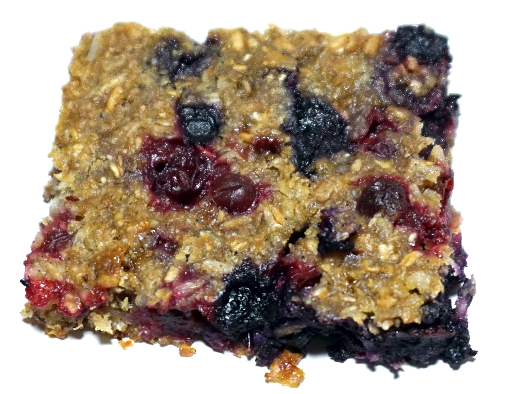 Pastry including blueberries and lingonberries.